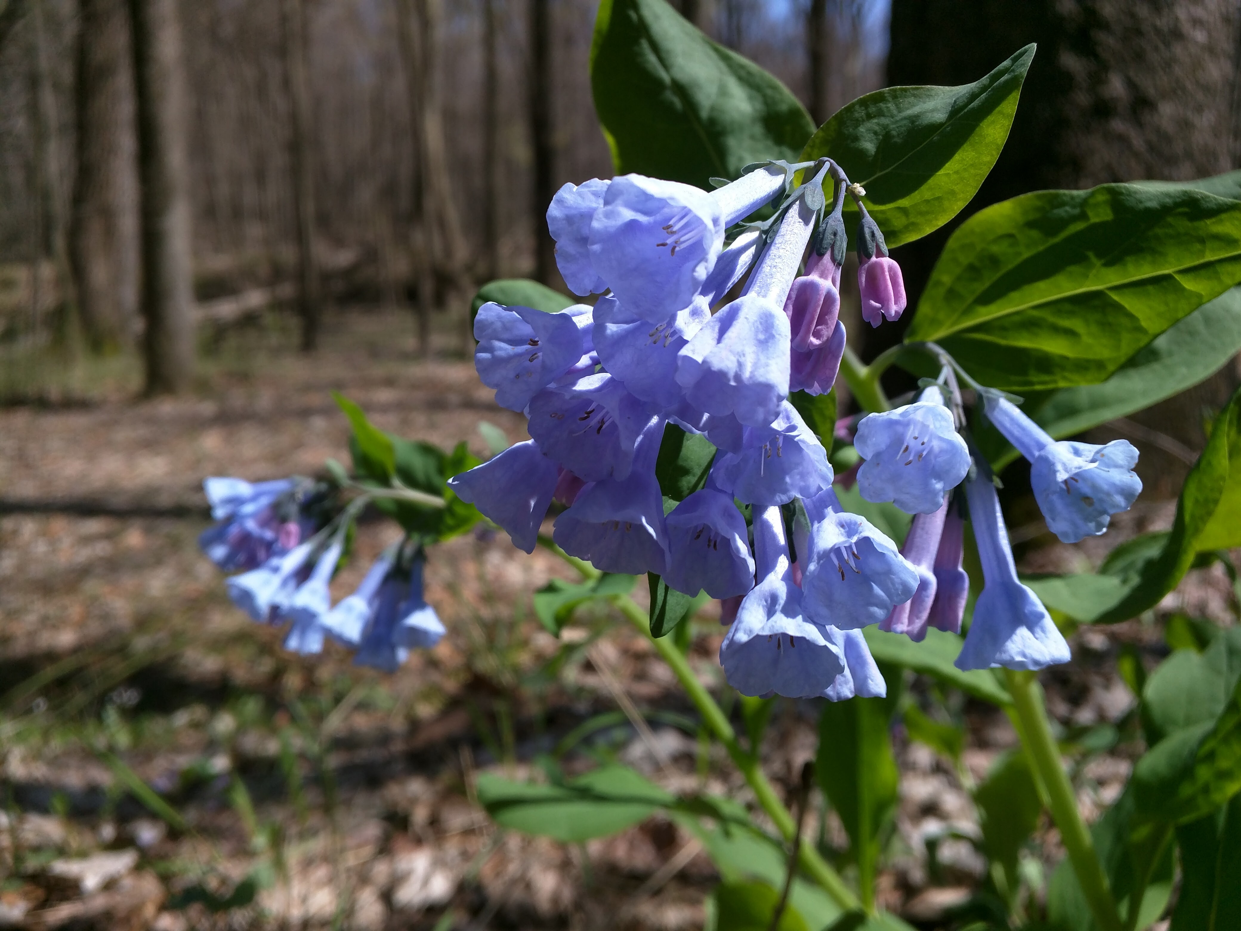 Blue bells in spring.